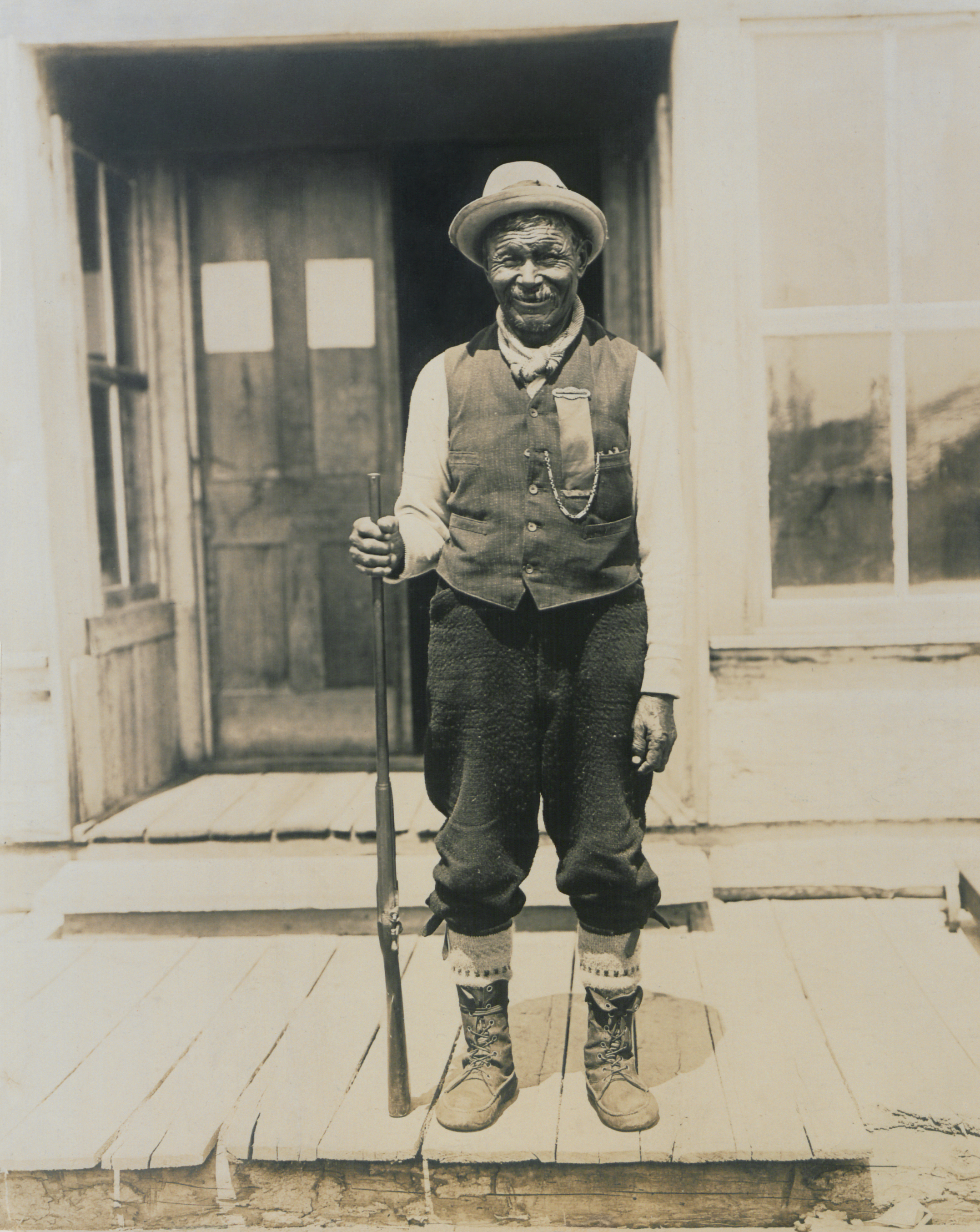 Tournenie.